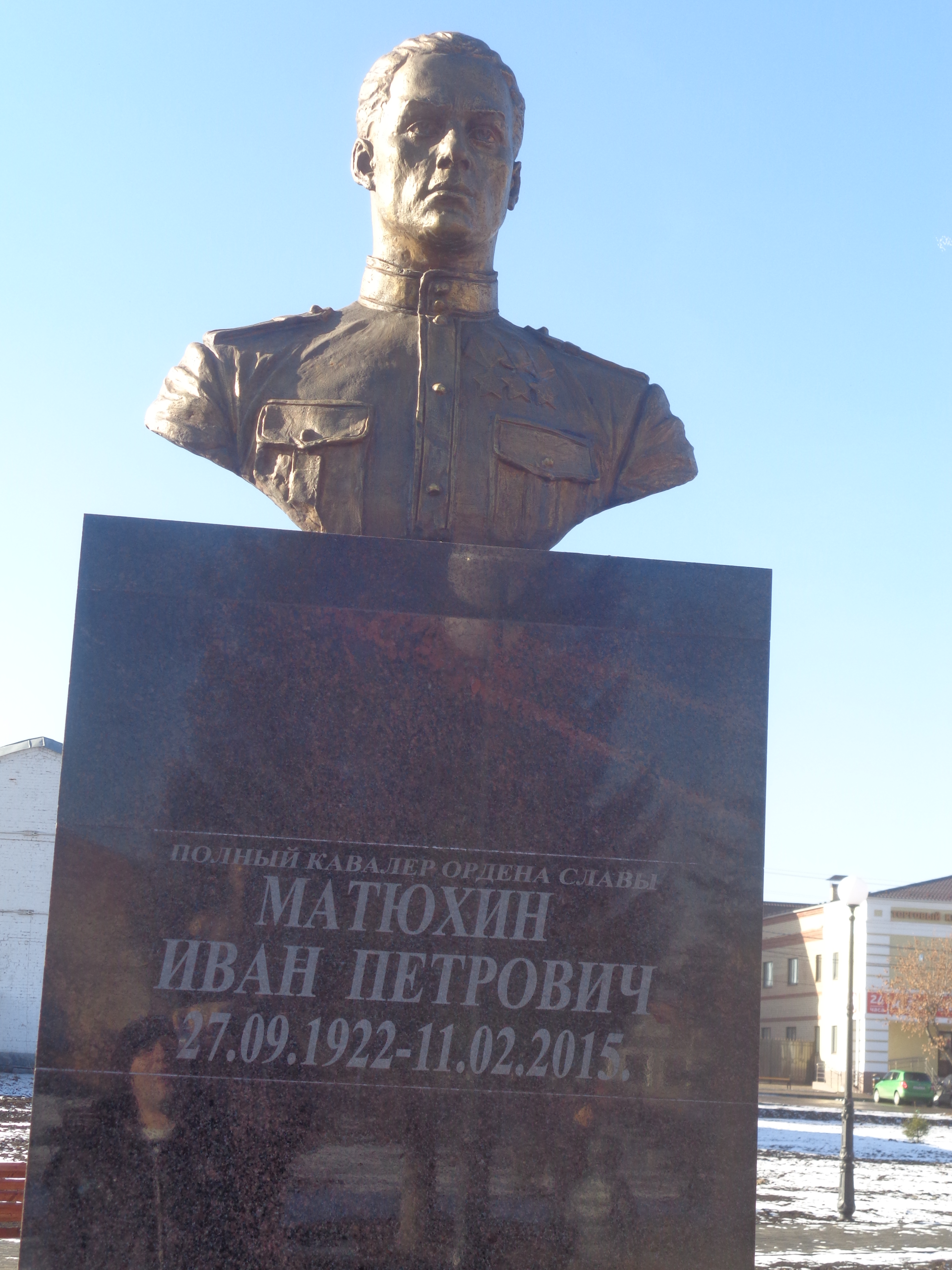 Monument to the Full Knight of the Order of Glory Matyukhin Ivan Petrovich